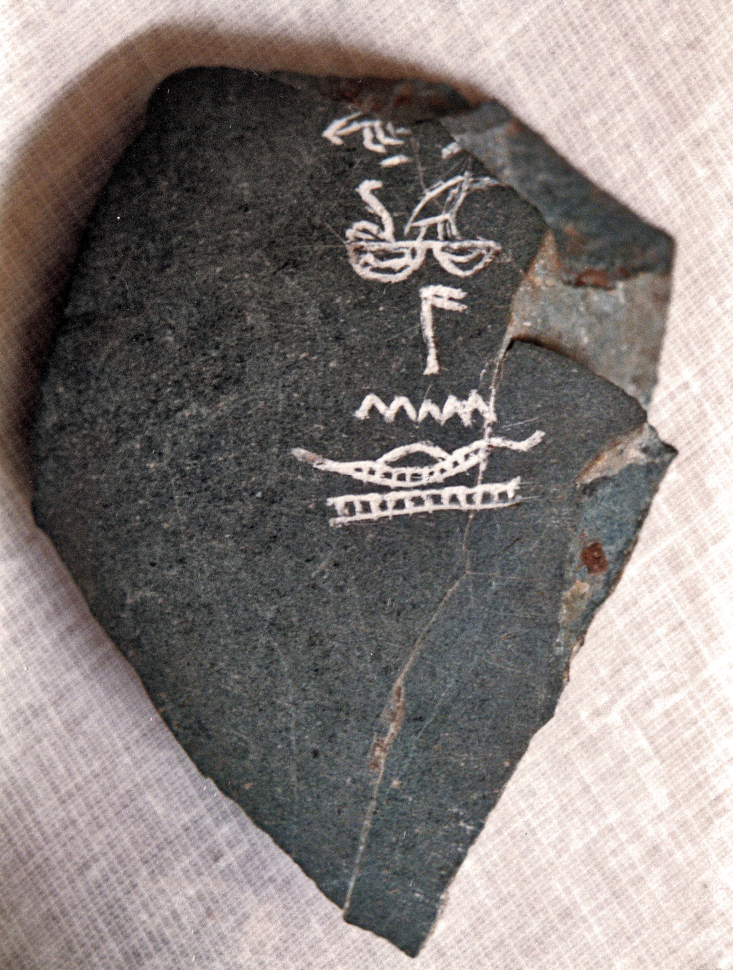 Fragment of a vase of King Ninetjer. Petrie stated that the boat pictured here, just below the name of the king, might indicate that this vessel was originally part of the equipment of a boat of the king. See Petrie, W.M.Flinders. 1901. The royal tombs of the first dynasty. Part II, p.26-27, Pl VIII.13. Origin: Abydos. Umm el Kaa, P tomb (Tomb of Peribsen), Cairo. Egyptian Museum.